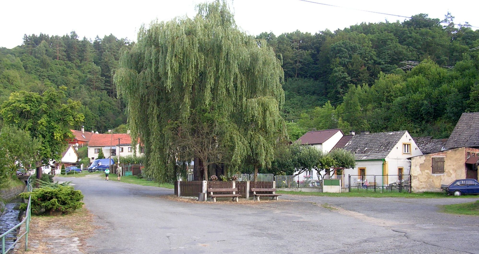 Pustověty, Rakovník District, Central Bohemian Region, the Czech Republic.